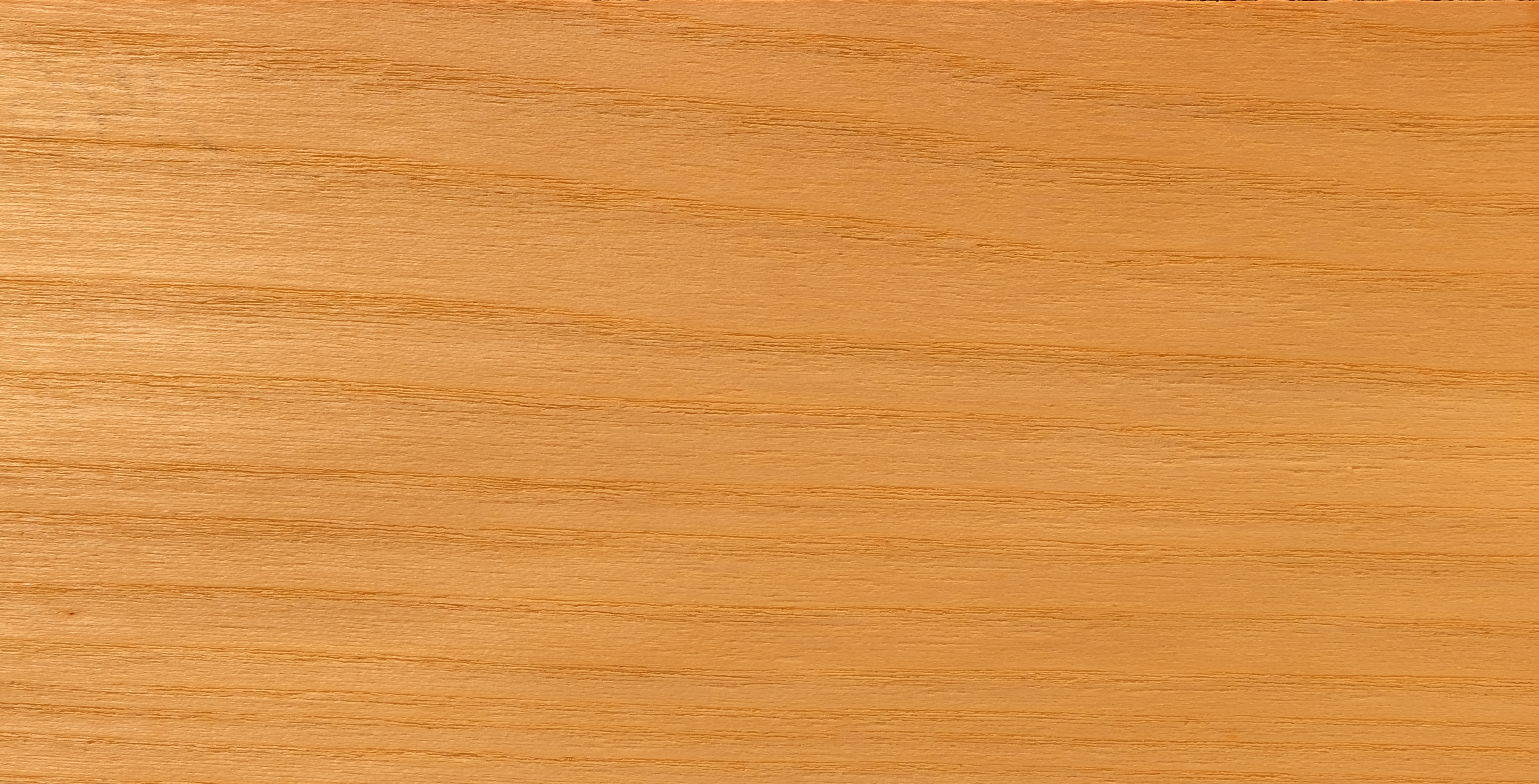 Hackberry wood